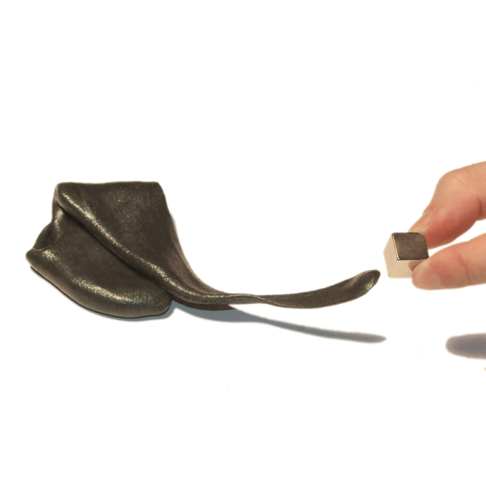 Magnetic Thinking putty